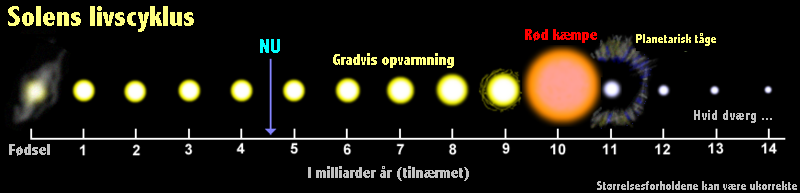 Illustration of the life-cycle of the Sun.